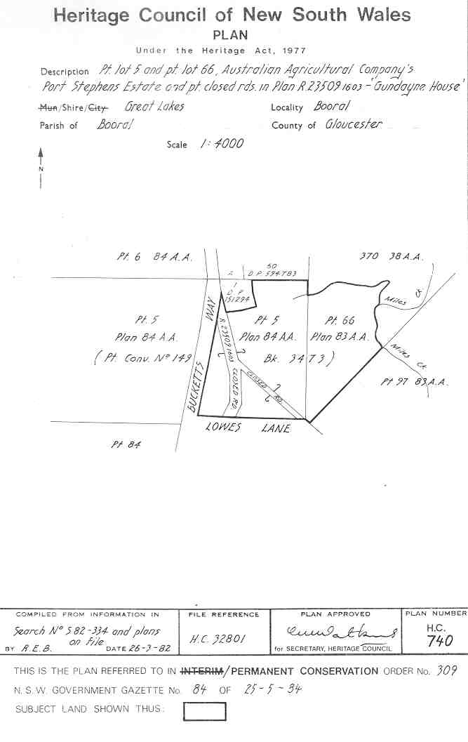 Gundayne House: PCO Plan Number 309